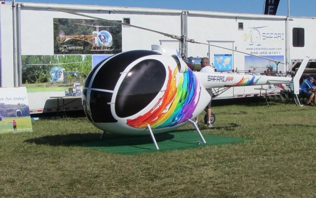 Safari500